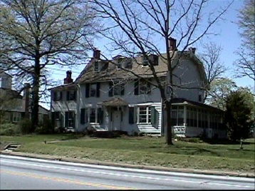 Darley House. Photo taken and donated by contributor "APatcher" - April 18, 2006 I grant anyone the right to use this work for any purpose without any conditions.